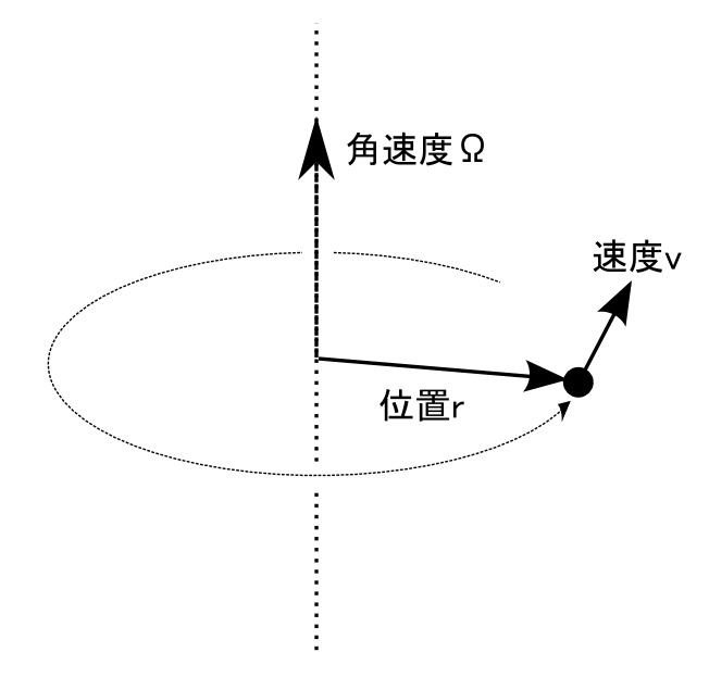 Angular Velocity Vector